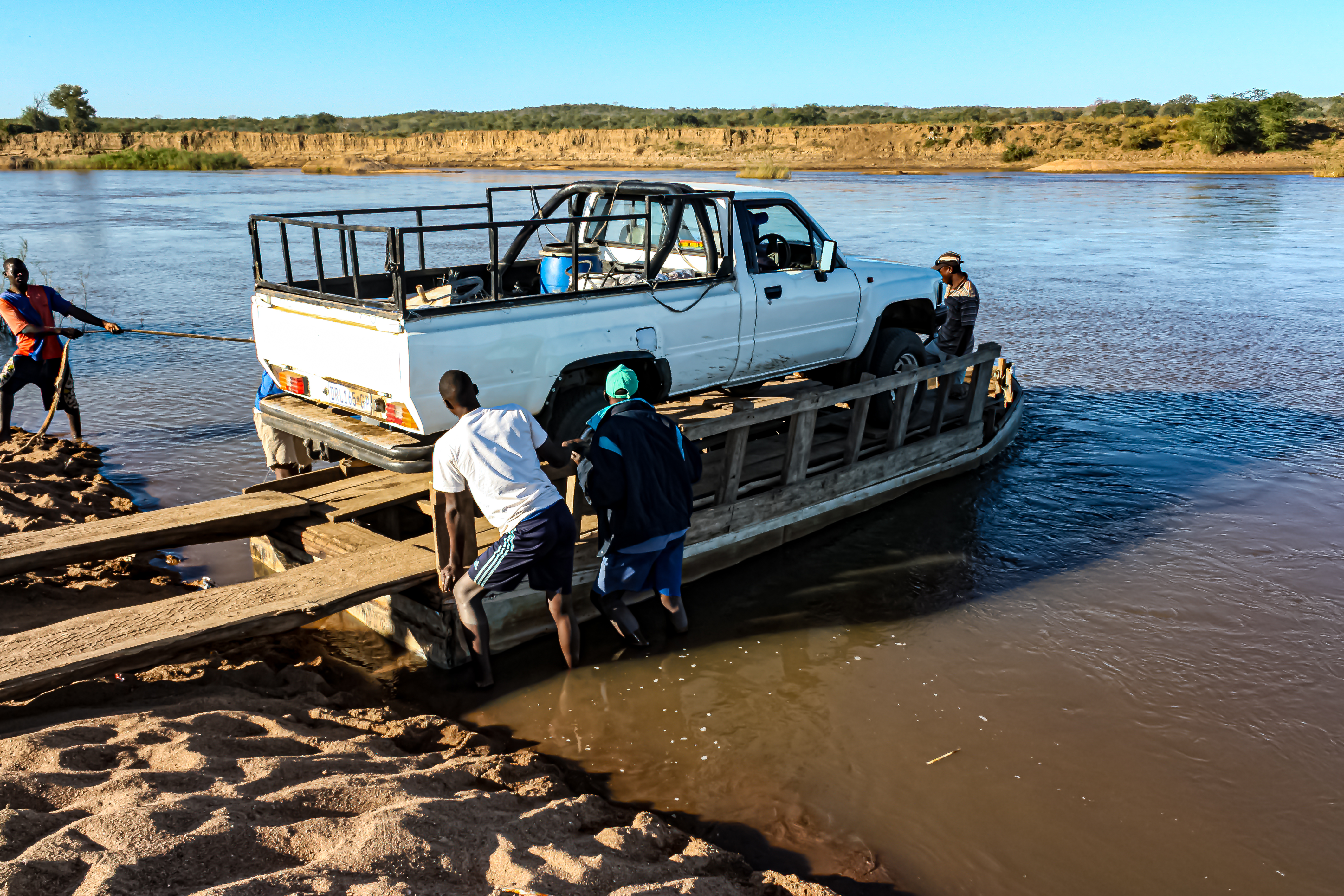 we need to cross the river by this fairy over the Limpopo river in Mozambique This is an image with the theme "Africa on the Move or Transport" from: Mozambique